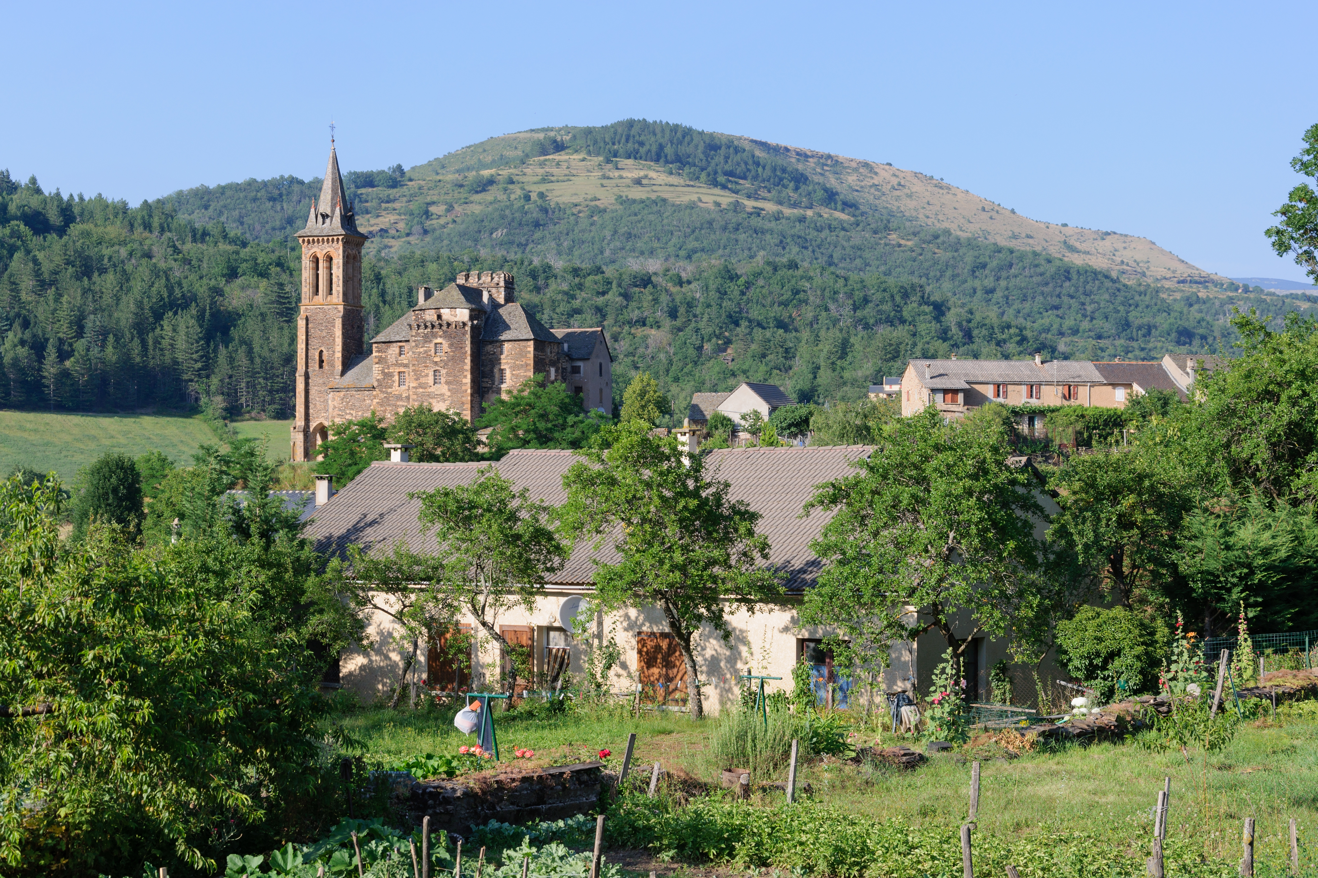 A view of Bédouès, Lozère, France, with its Our Lady of the Assumption collegiate church.